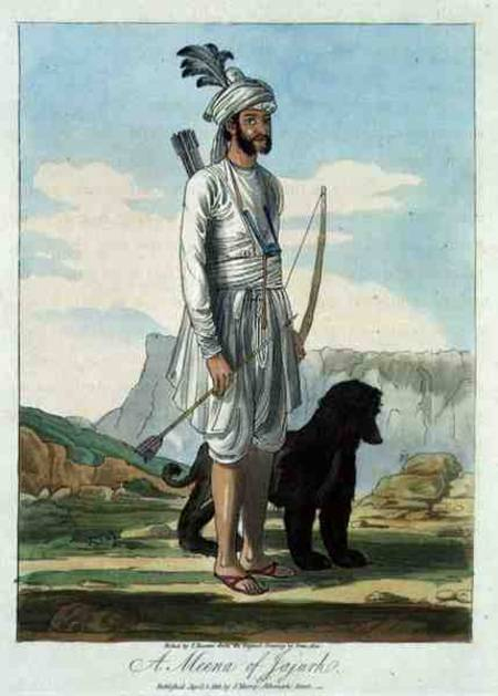 Source: [Letters in a Mahratta Camp During the Year, 1809, By Thomas Duer Broughton (1778–1835), ISBN 8120610083]